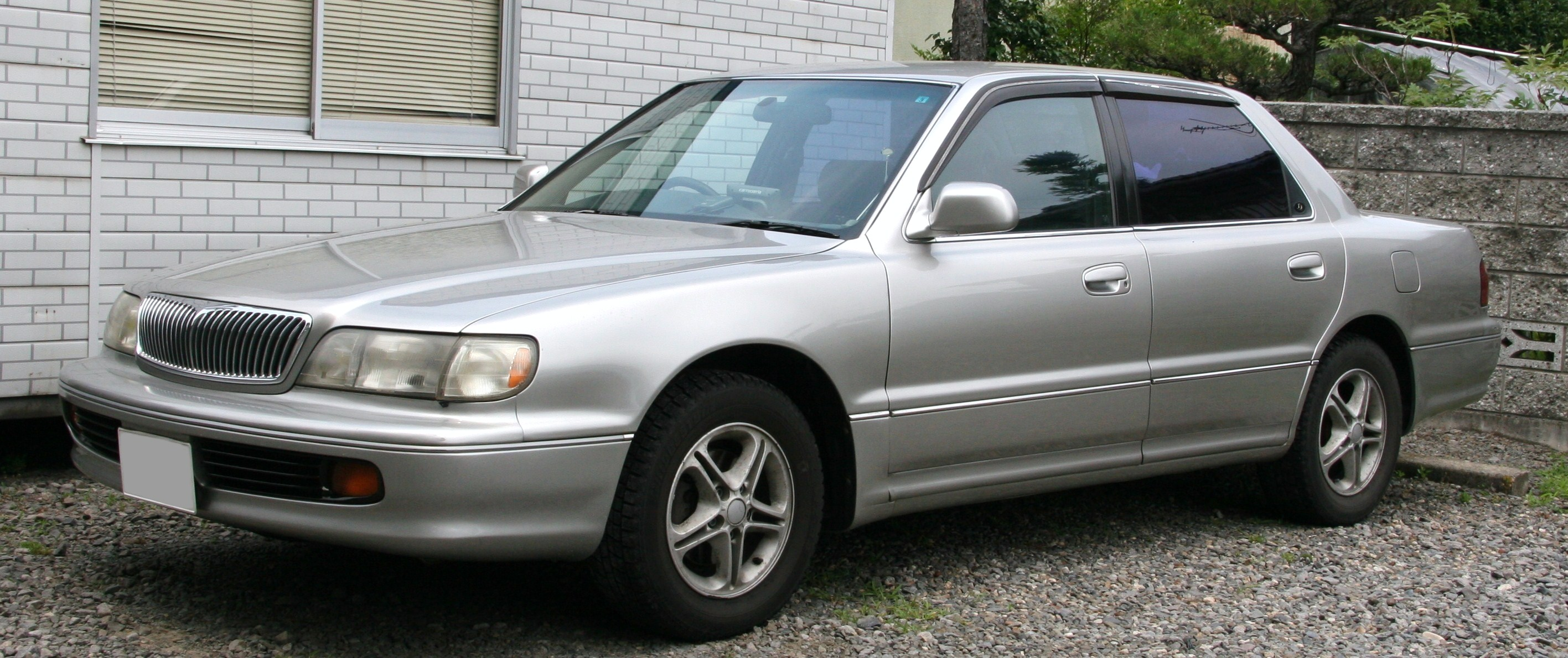 Mitsubishi Debonair